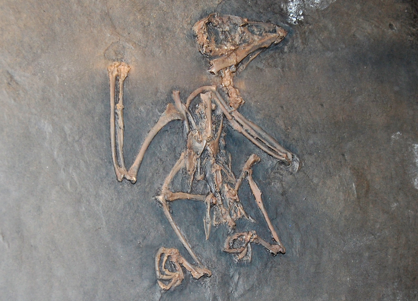 Extinct kingfisher from the Messel Pit Naturhistorisches Museum Wien